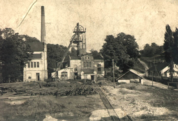 Františka Mine, Padochov, Oslavany, Czech Republic